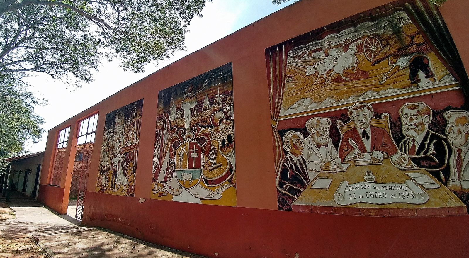 Mural in municipality wall of San Juan Bautista, Paraguay